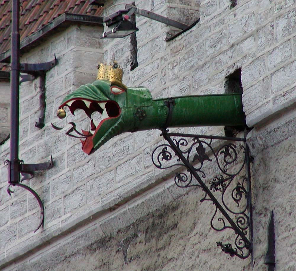 Photo of Tallinn city hall rainspout